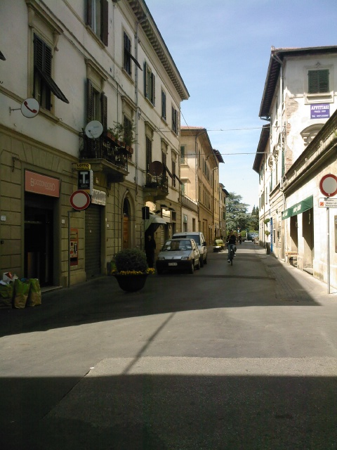 Via Ridolfi (Empoli)